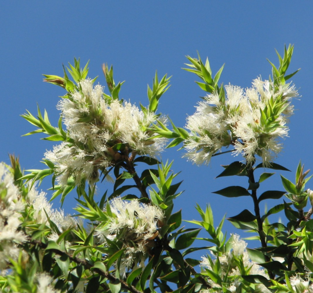 Melaleuca styphelioides (cultivated) Melbourne, Victoria, Australia